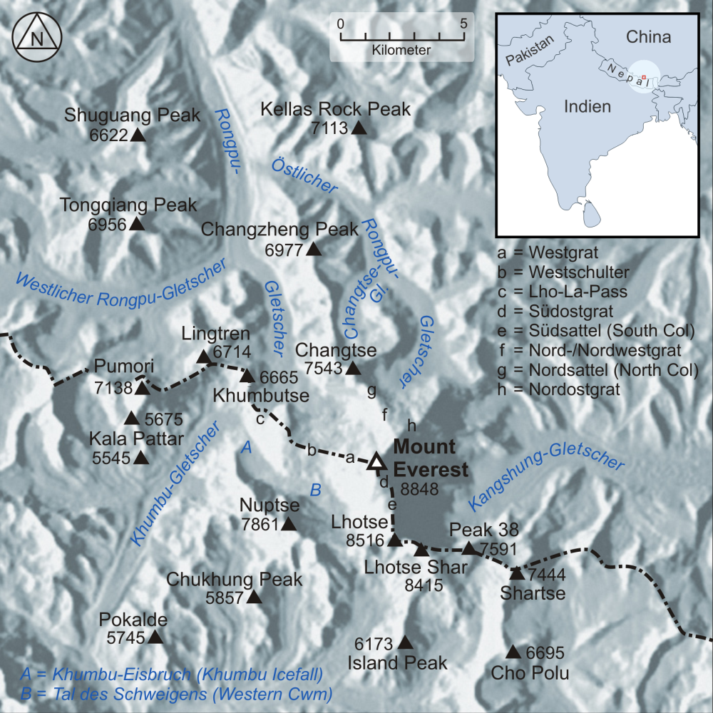 Map of the region surrounding Mount Everest